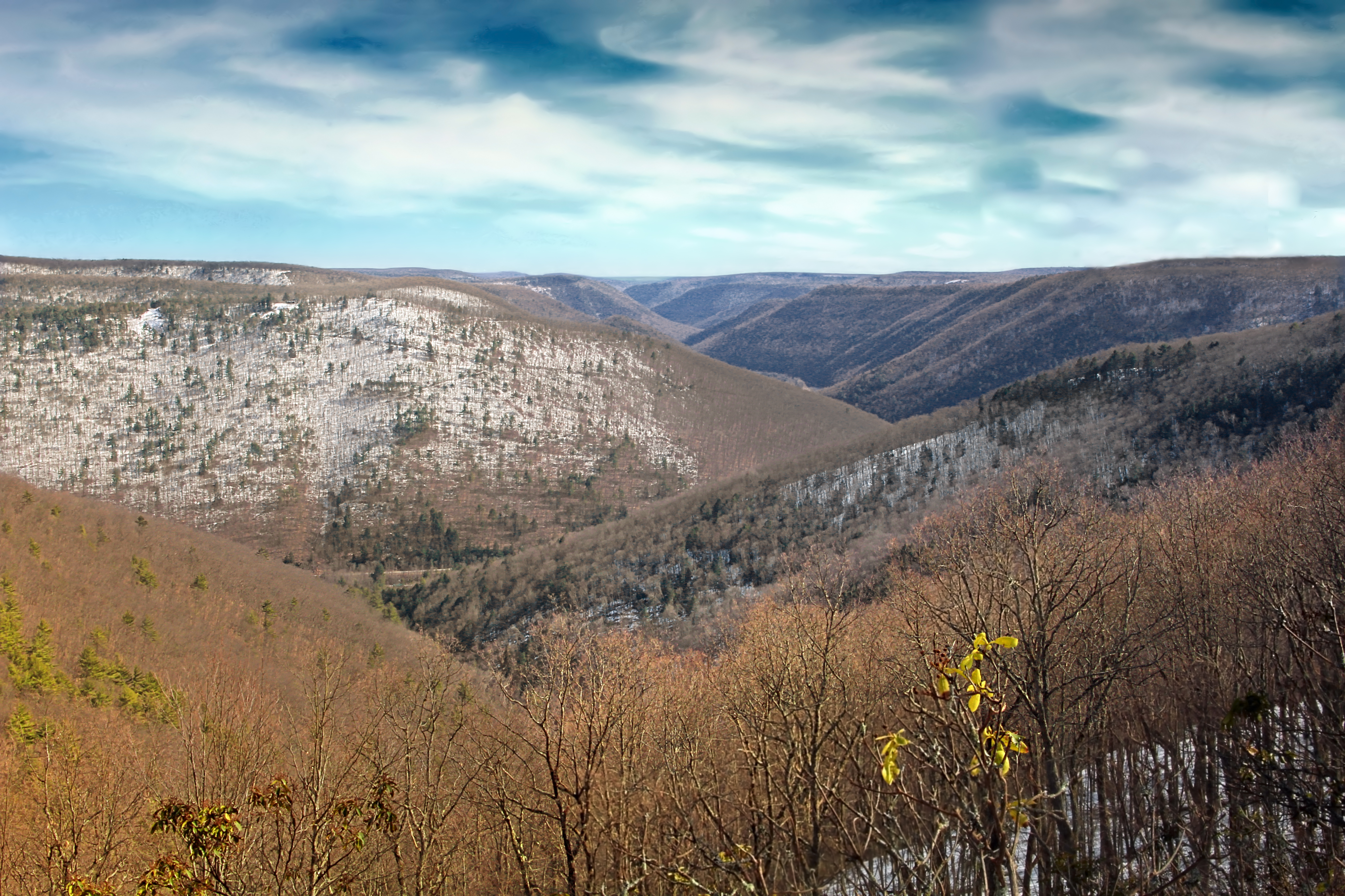 Tiadaghton State Forest, Lycoming County, Pennsylvania, USA, along the Black Forest Trail. The southeast view here is of the Naval Run drainage area and the winding corridor of Pine Creek Gorge.